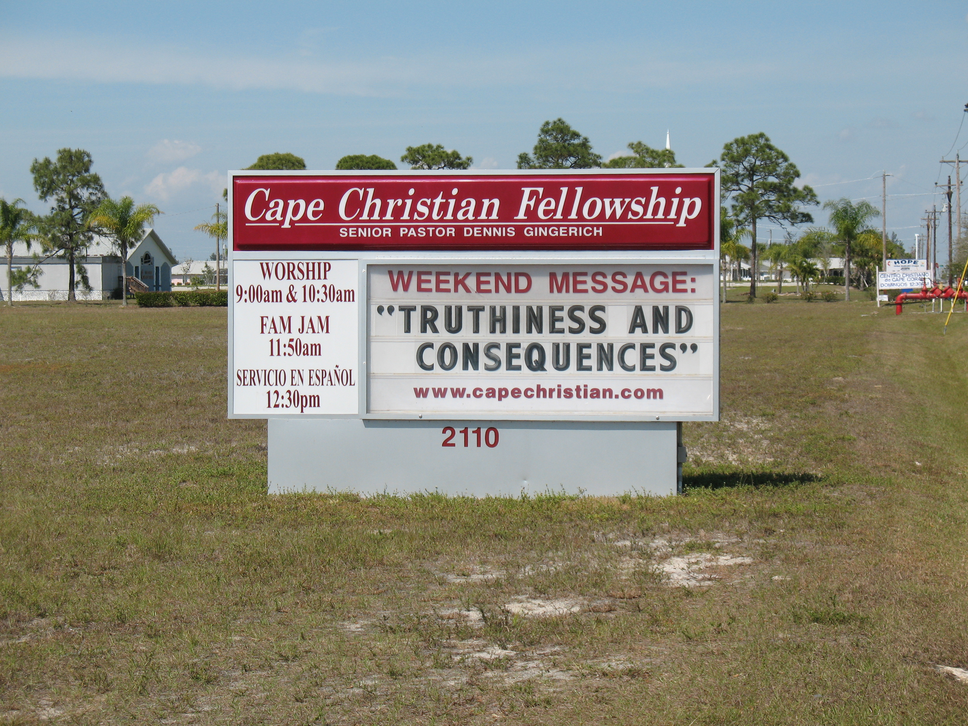 An unretouched photo of a church sign.